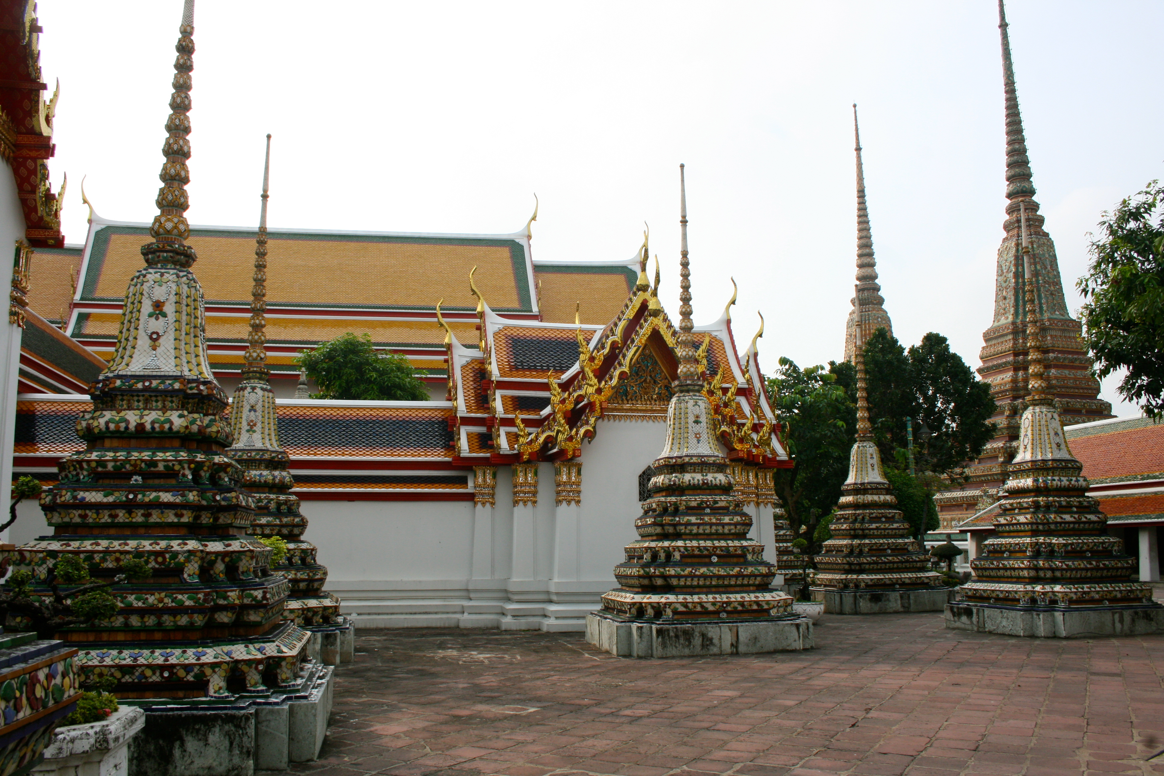 Burial chambers in the grounds of Wat Pho Temple